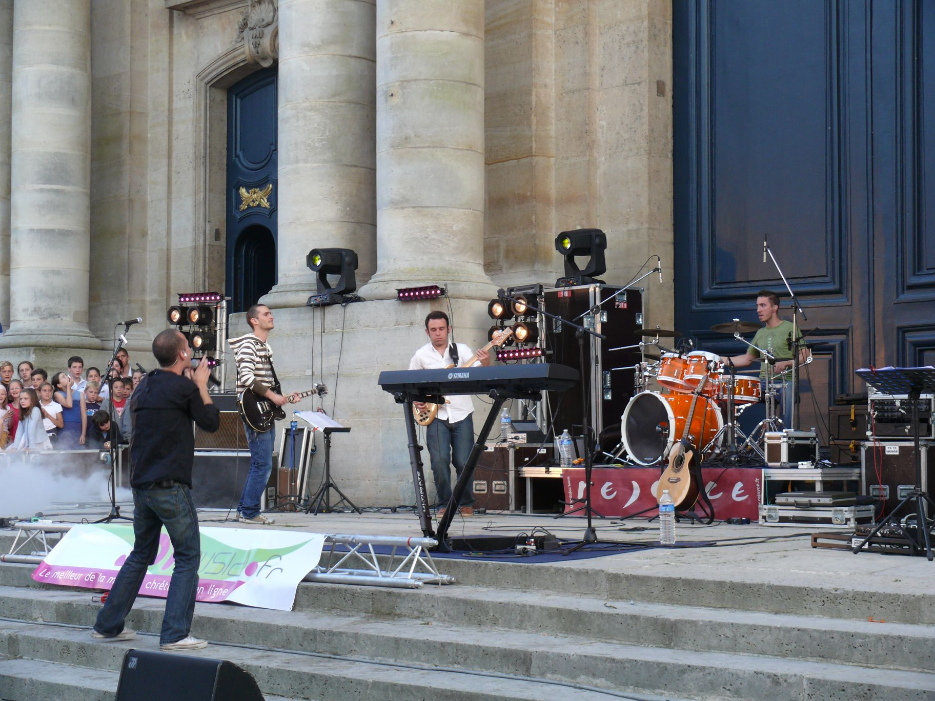 Concert by Glorious at Versailles' cathedral (Yvelines, France).